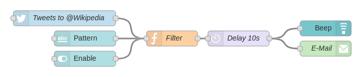 A flow for Node-RED consisting of some nodes